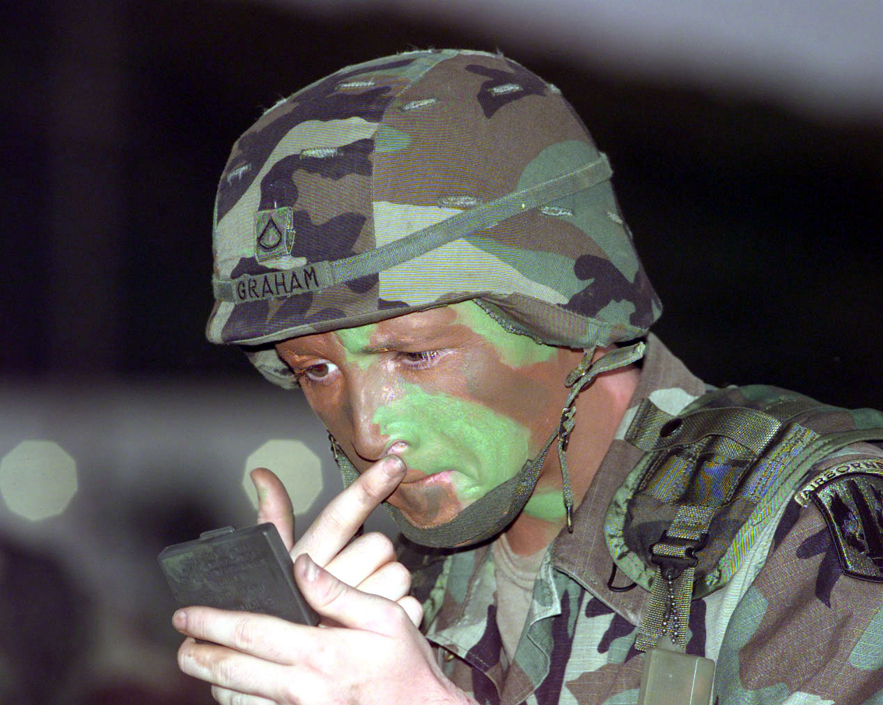 PFC Joel Graham of B Battery, 1st Battalion, 377th Field Artillery Regiment (Air Assault), Fort Bragg, North Carolina, puts on camouflage paint as his unit prepares to board the ship that will take him to Vieques Island, Puerto Rico for PURPLE DRAGON, a joint exercise with the 26th Marine Expeditionary Unit, Camp Lejeune. Location: MARINE CORPS BASE, CAMP LEJEUNE, NORTH CAROLINA (NC) UNITED STATES OF AMERICA (USA)